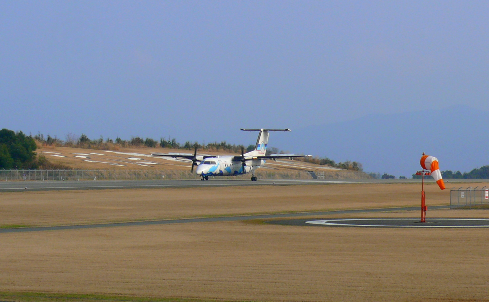 DHC-8 of Amakusa-Airline that arrived at Amakusa Airport.(Japan,).